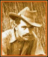 Stanley Portal Hyatt in the bush, Rhodesia 1898